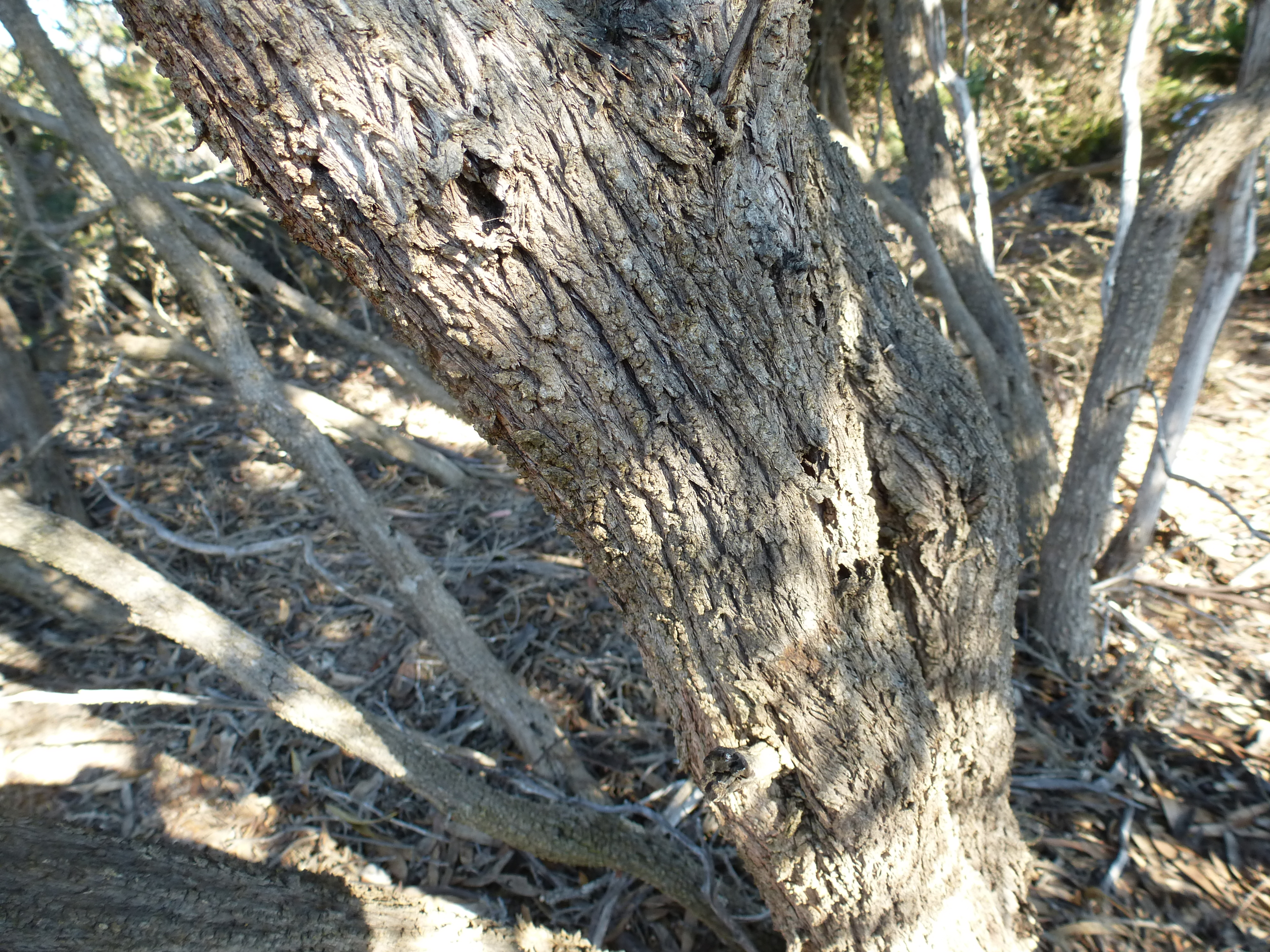 Melaleuca teuthioides growing 10 km east of Ravensthorpe